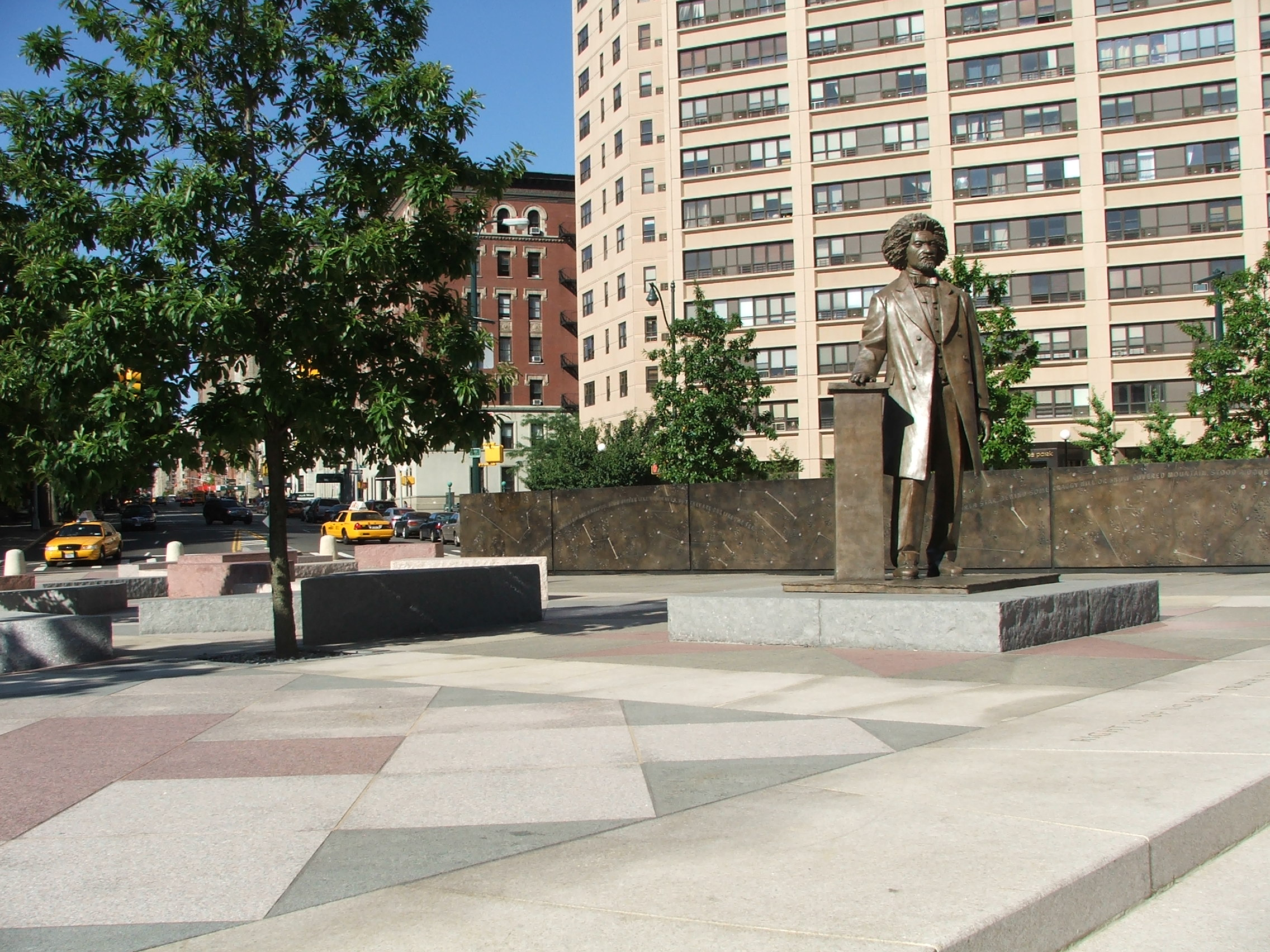 Frederick Douglass Circle (Half)